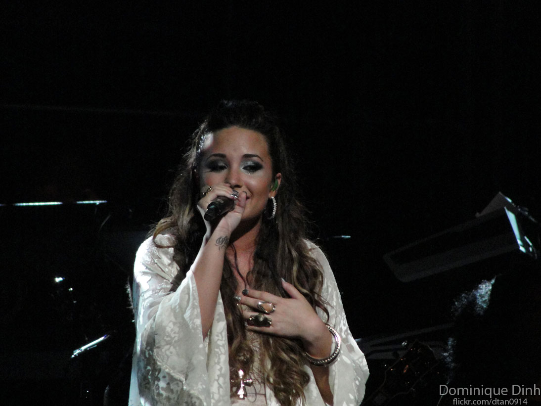 Demi Lovato performing "Skyscraper" at Club Nokia in Los Angeles